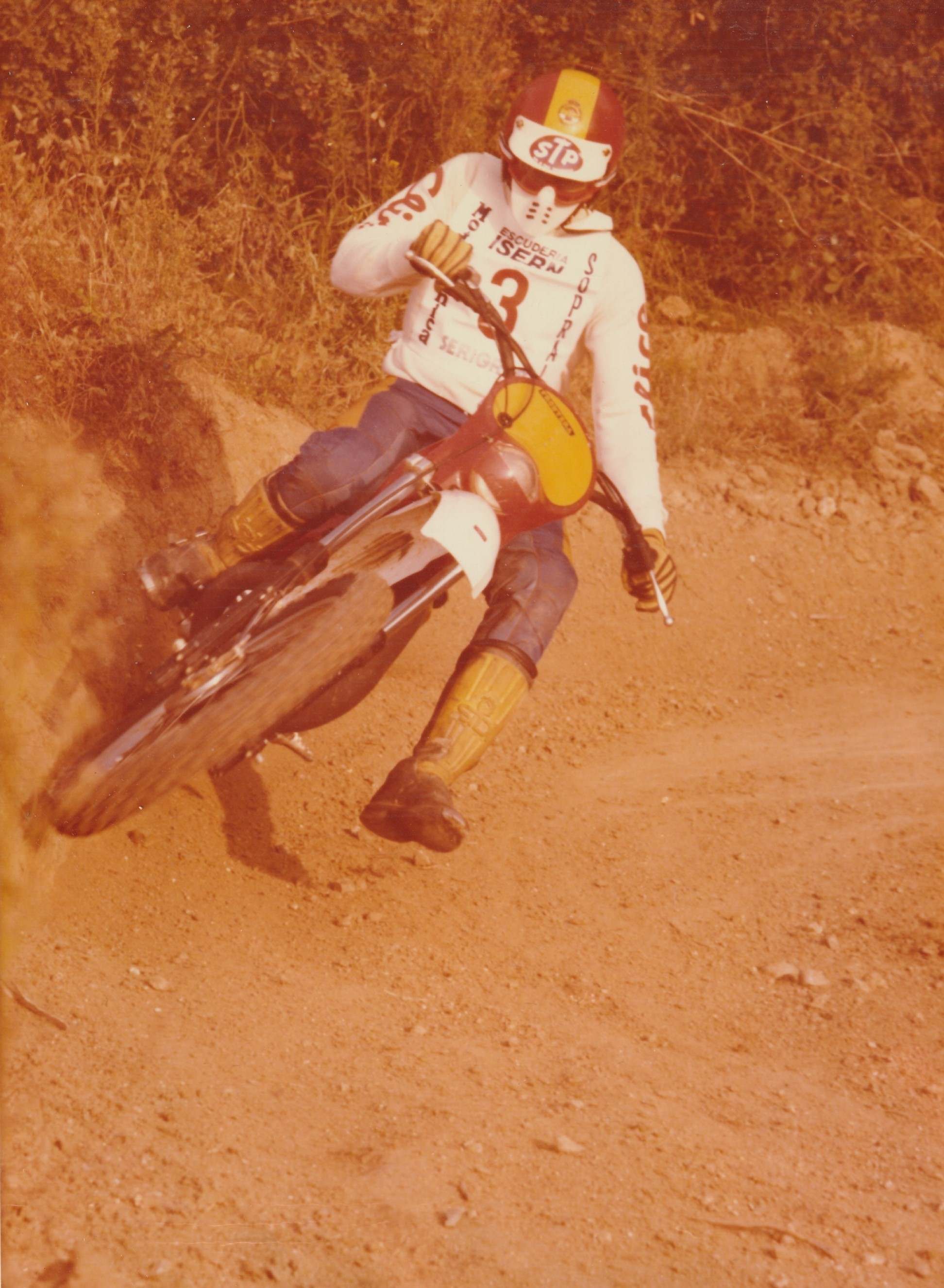 Narcís Casas on his Bultaco Frontera MK10 at 1977 150 Milles de Mollet. His team couple was Ignasi Bultó.